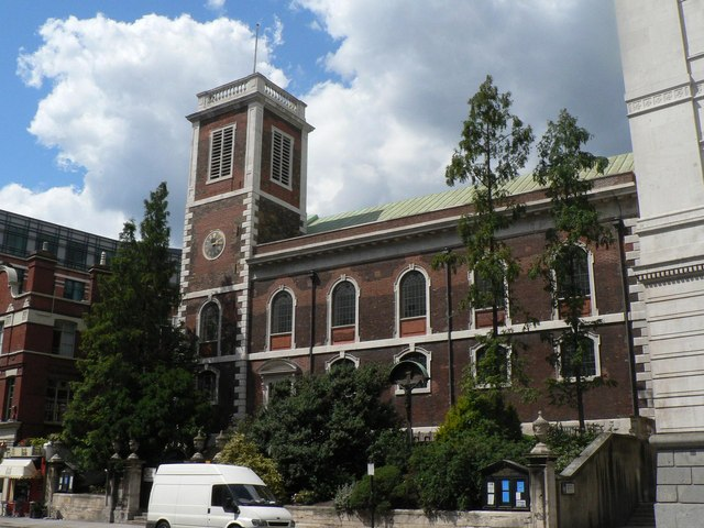 City parish churches: St. Andrew-by-the-Wardrobe In St. Andrew's Hill near the bottom by Queen Victoria Street. Rebuilt by Christopher Wren, following the great fire, in 1685-95.